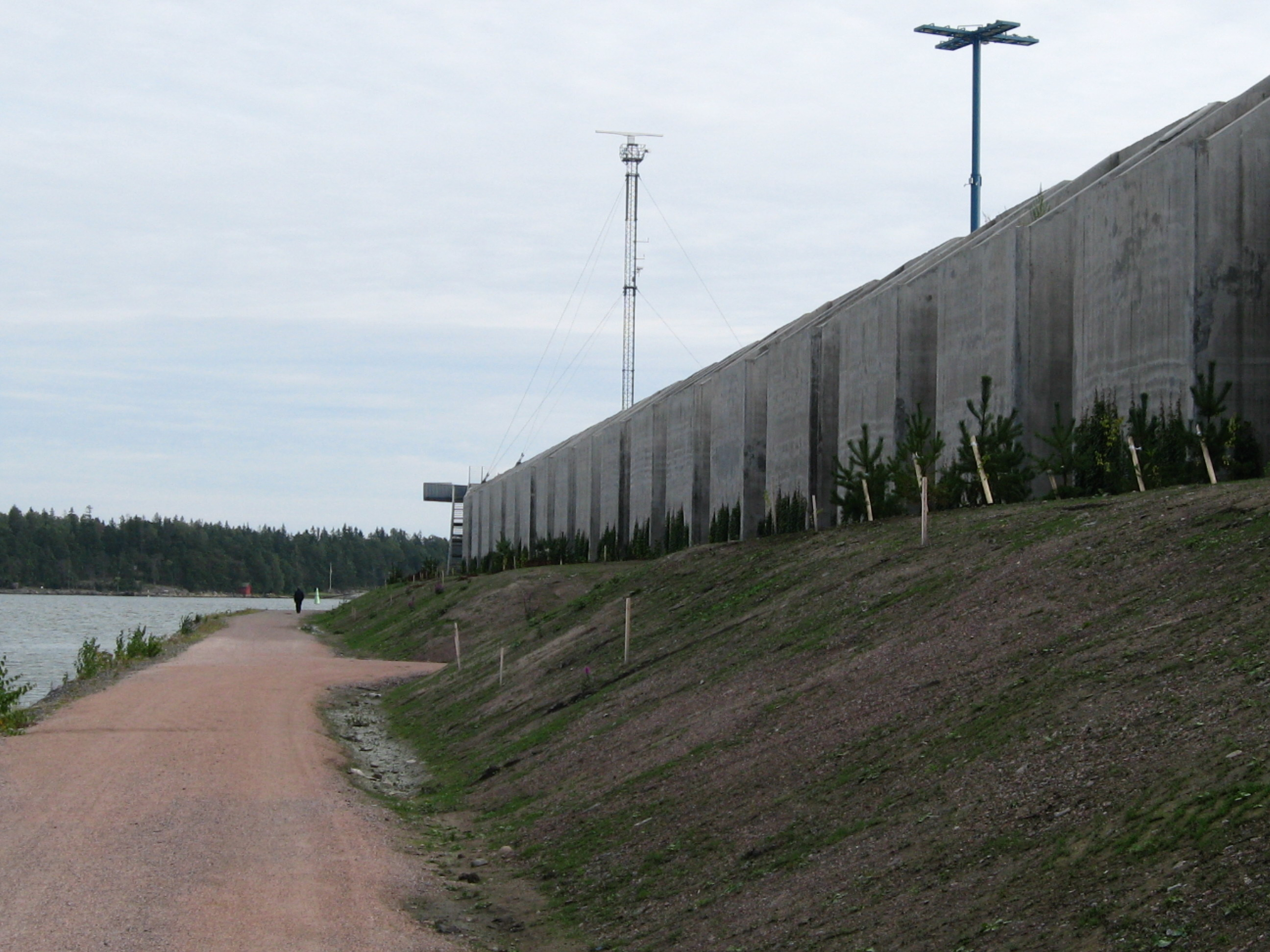 A noise barrier, a concrete wall in Vuosaari Harbour, Helsinki, Finland. Completed 2008, the noise barrier won "The Conctrete Structure of the year" -competition in 2008, arcitects Arkkitehtityöhuone Artto Palo Rossi Tikka.